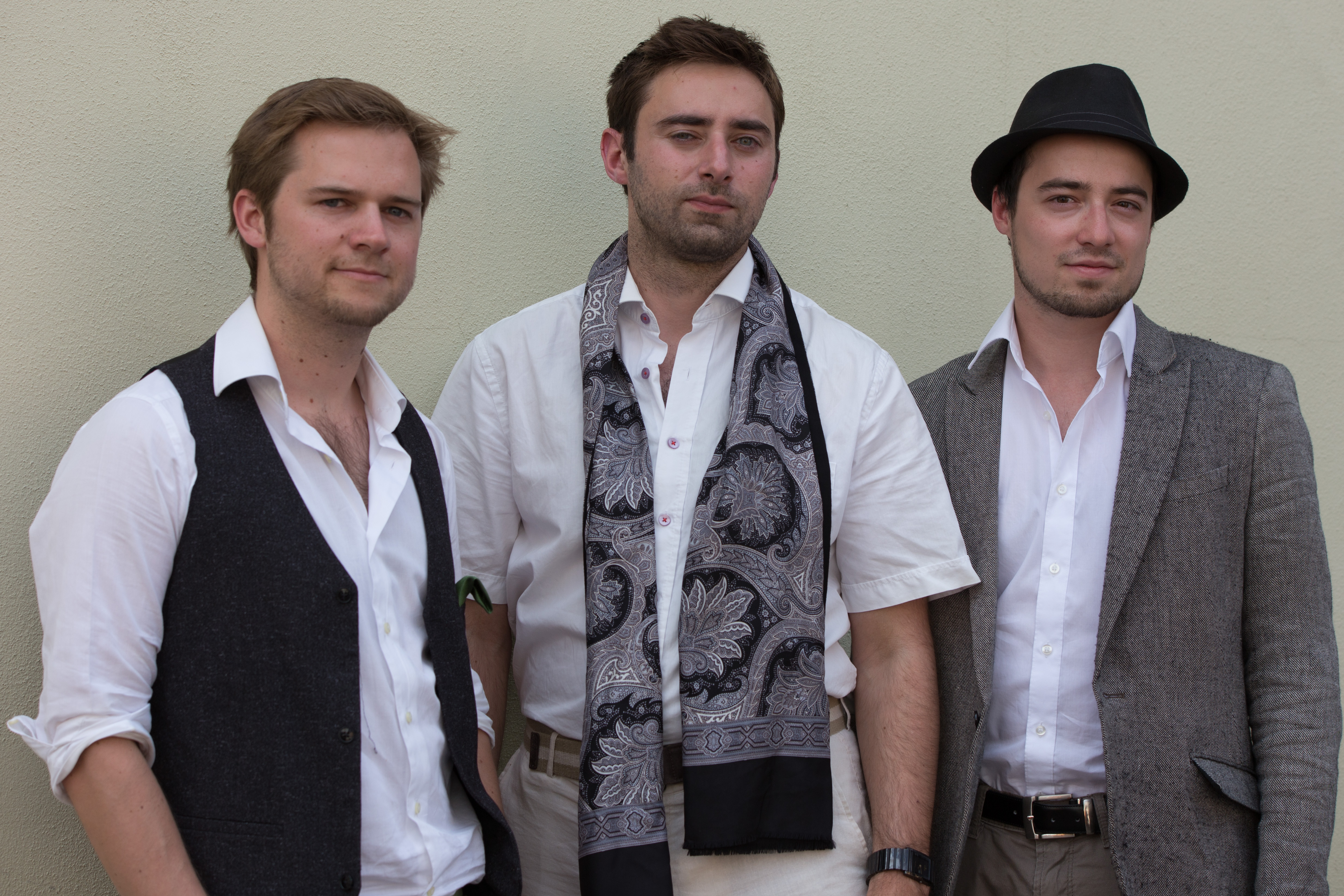 Festivalsommer This photo was created with the support of donations to Wikimedia Deutschland in the context of the CPB project "Festival Summer".